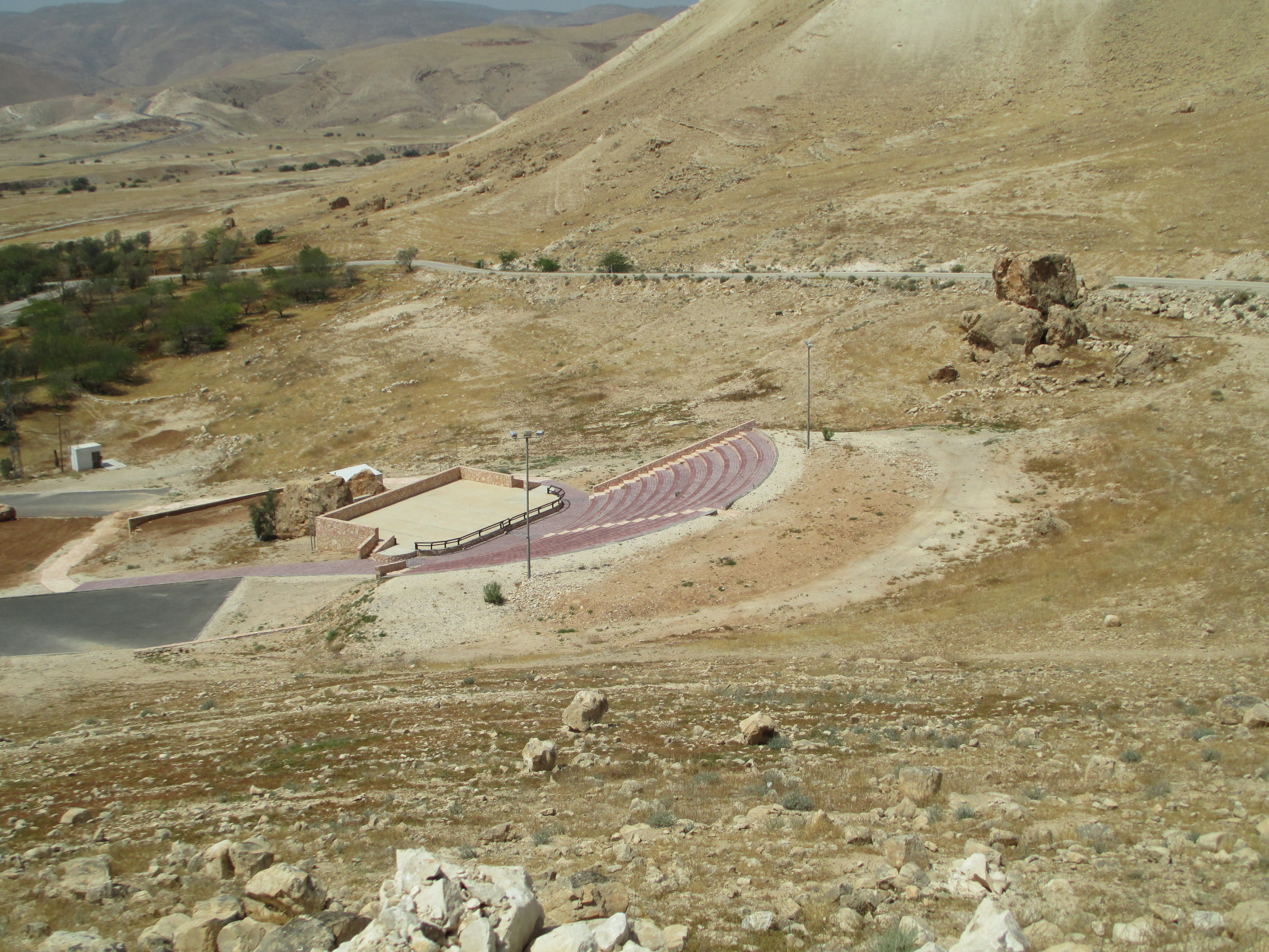 Habik'a (Jordan Valley) war memorial